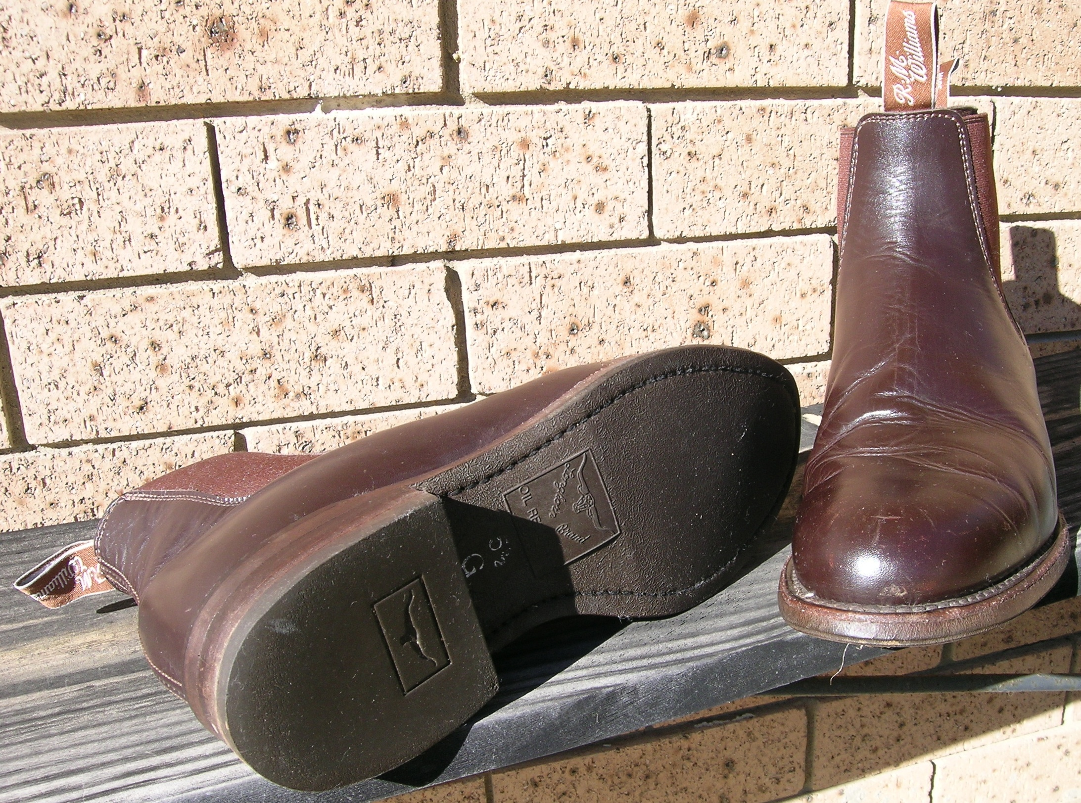 R.M.Williams elastic side riding boots which can be handcrafted in a range of leathers, toe and heel styles.